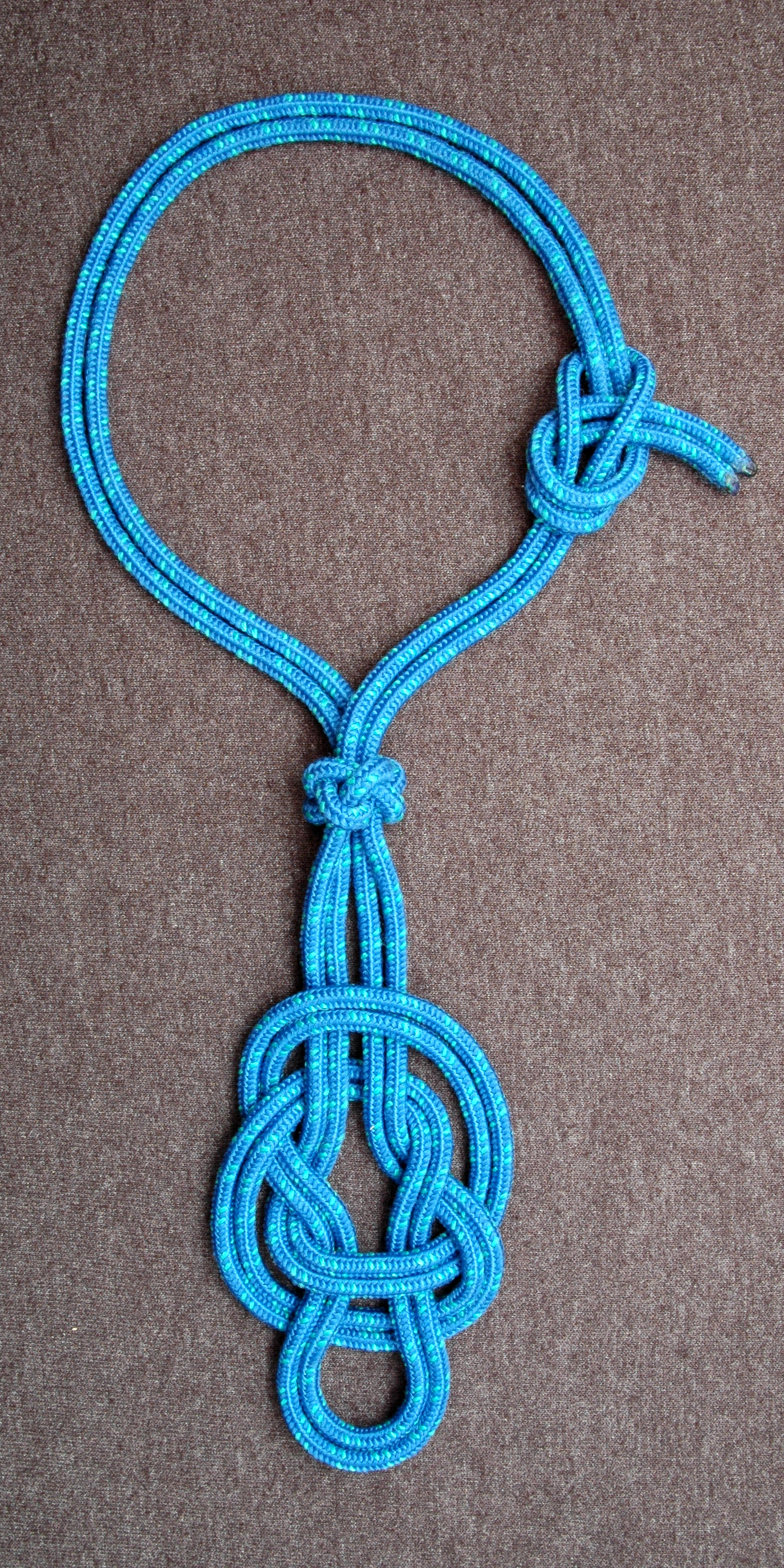 A mockup of a traditional rope fiador as described and illustrated in the Encyclopedia of Rawhide and Leather Braiding by Bruce Grant (1972/2004) pp. 144-149. The knots used, from top to bottom, are: becket hitch (cf. ABOK #1492), fiador knot (#1110), and bottle sling (#1142).